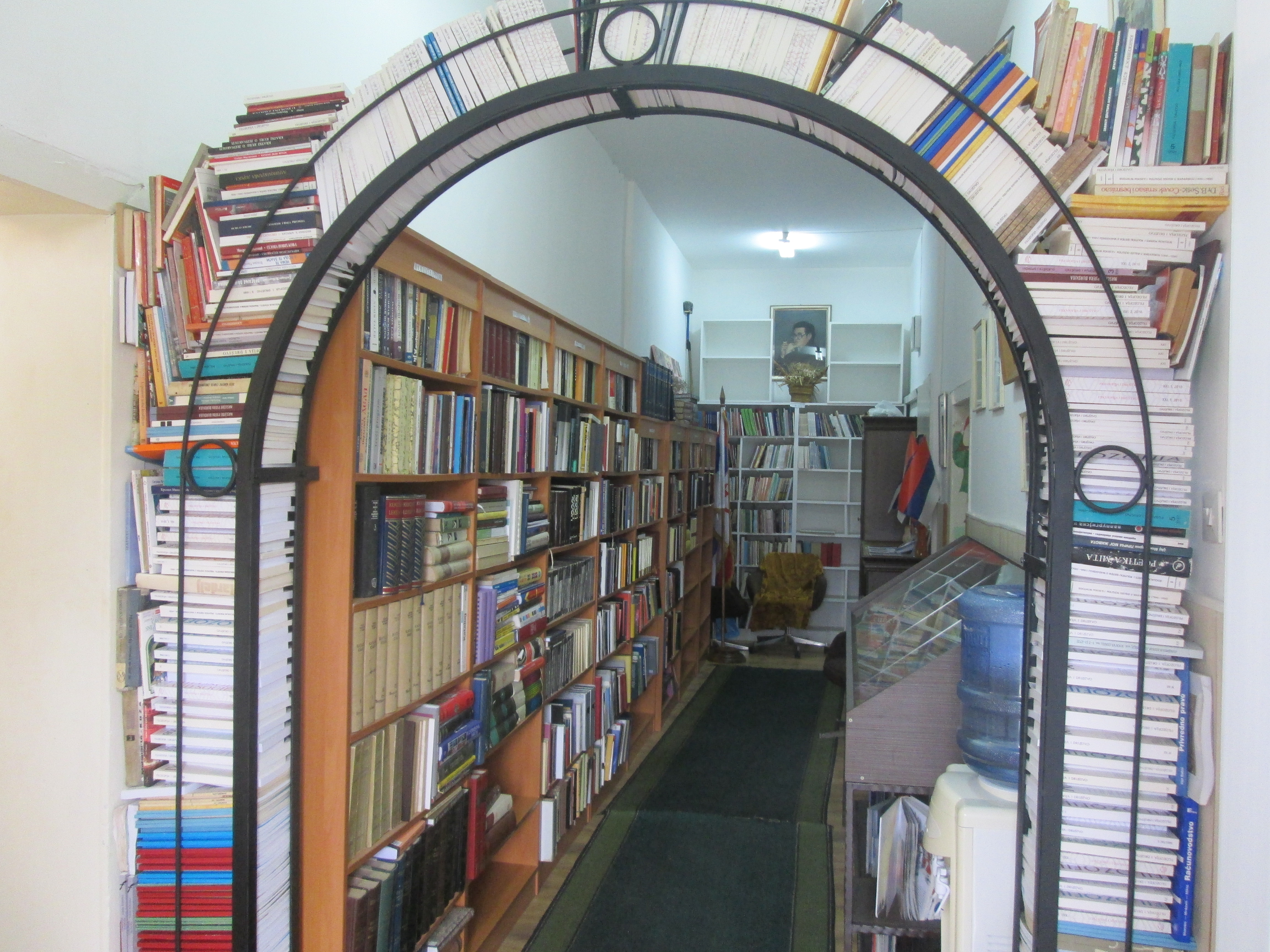 Library Srboljub Mitić - Malo Crniće